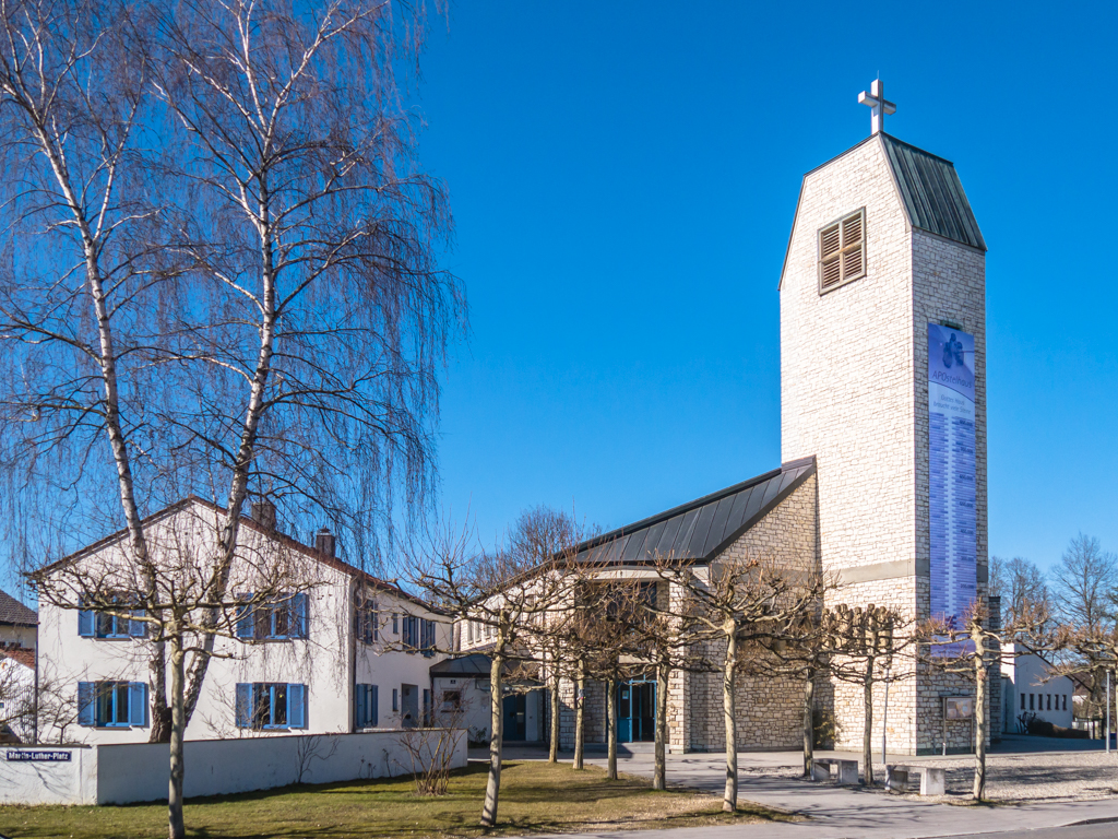 Apostelkirche in february 2014 with vicarage and donations account for a new parish hall